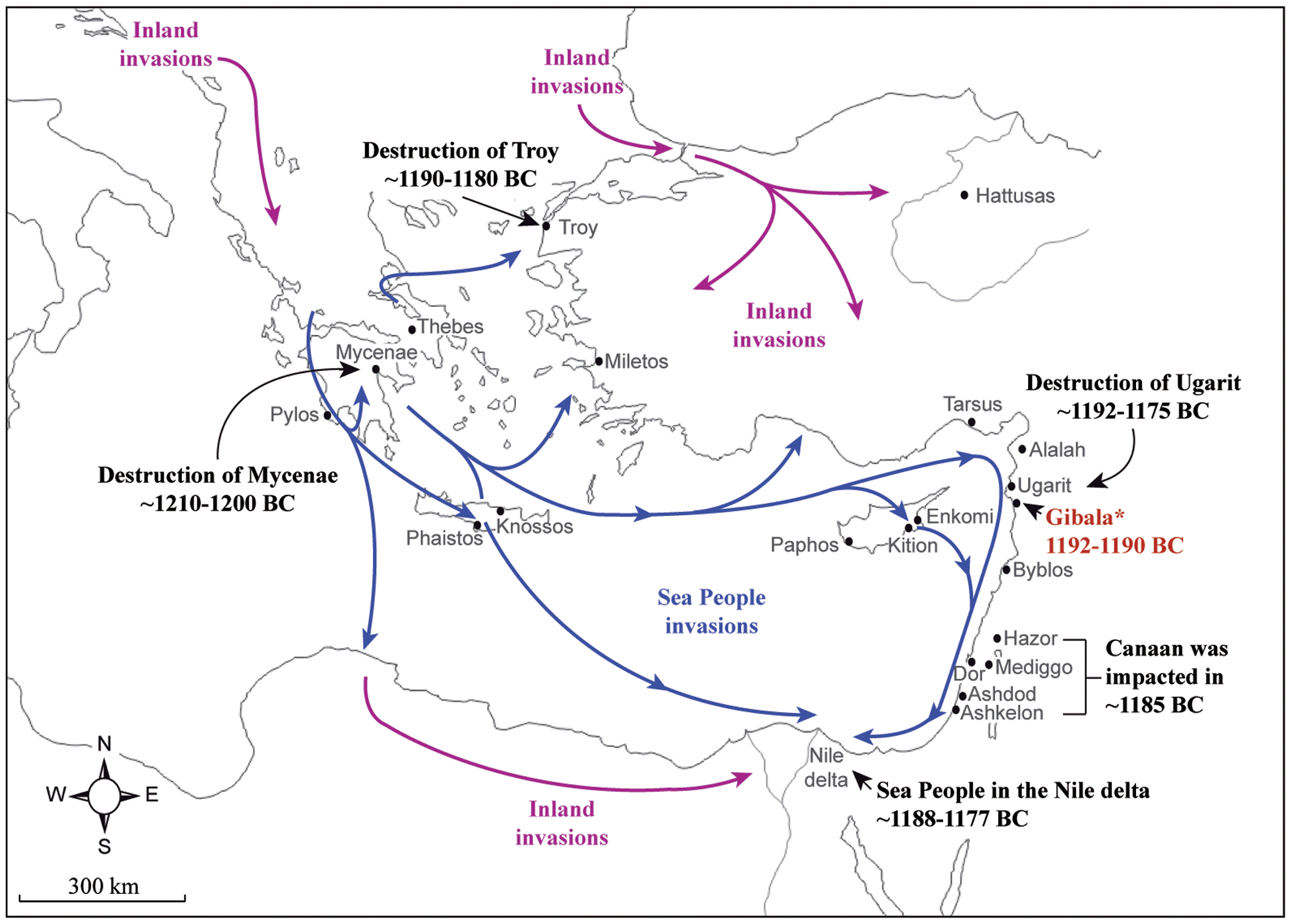 Map of the Sea People invasions in the Aegean Sea and Eastern Mediterranean at the end of the Late Bronze Age